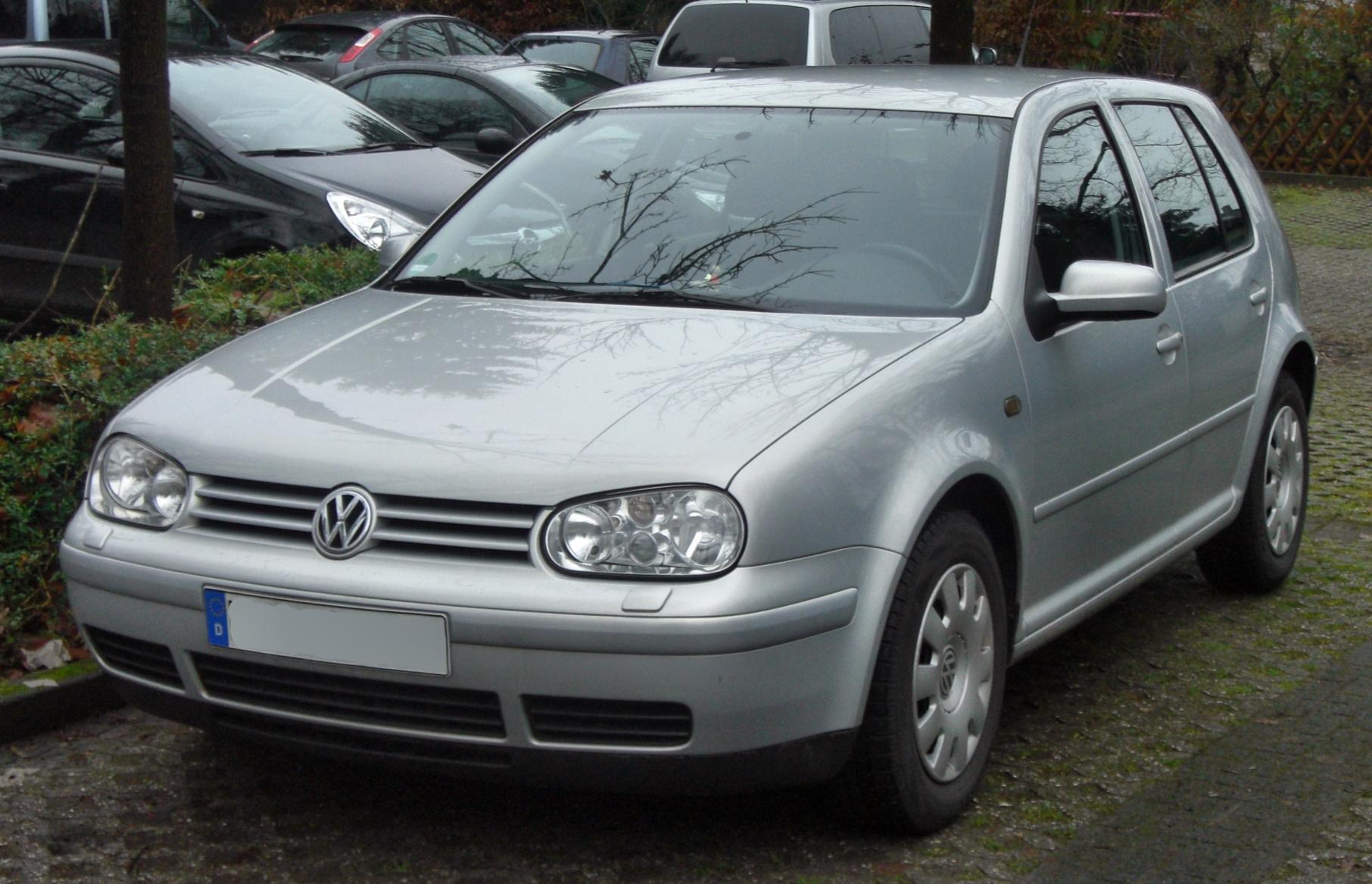 Description: VW GOLF IV Source: Matthias Other Version(s)